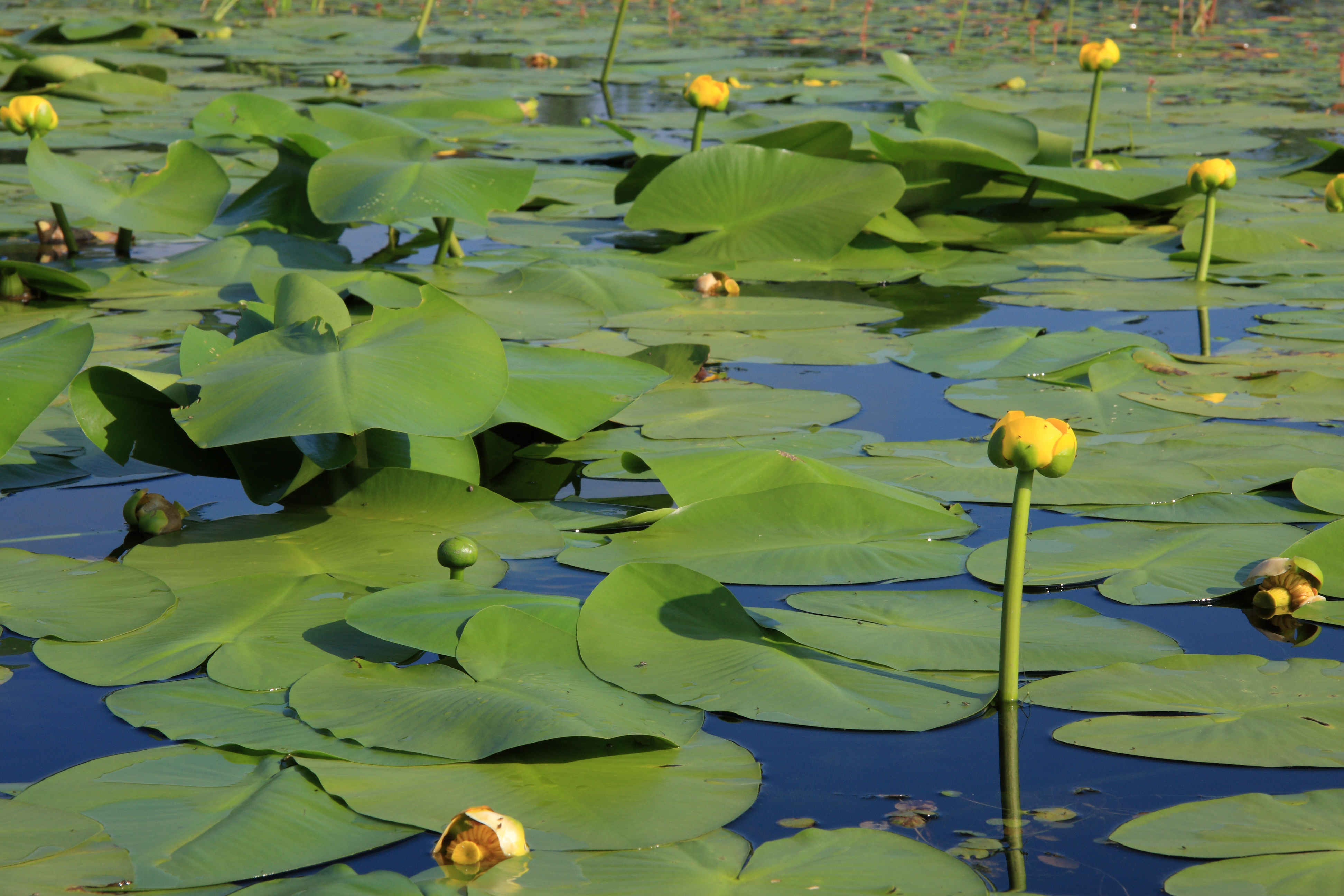 Nuphar variegata, Plaisance National Park, Quebec, Canada